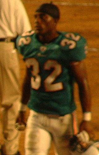 If used somewhere other than Wikipedia, Nelson, by name.